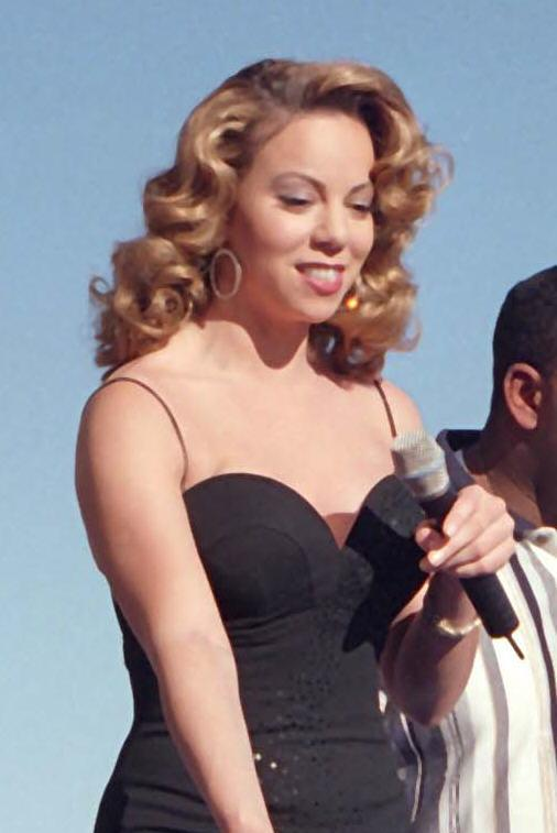 Mariah Carey at Edwards Air Force Base in Dec. 1998. Carey takes time out of her video shoot to sing for the crowd during the taping of her video "I Still Believe" on Dec. 11 and 12, 1998, at Edwards Air Force Base.